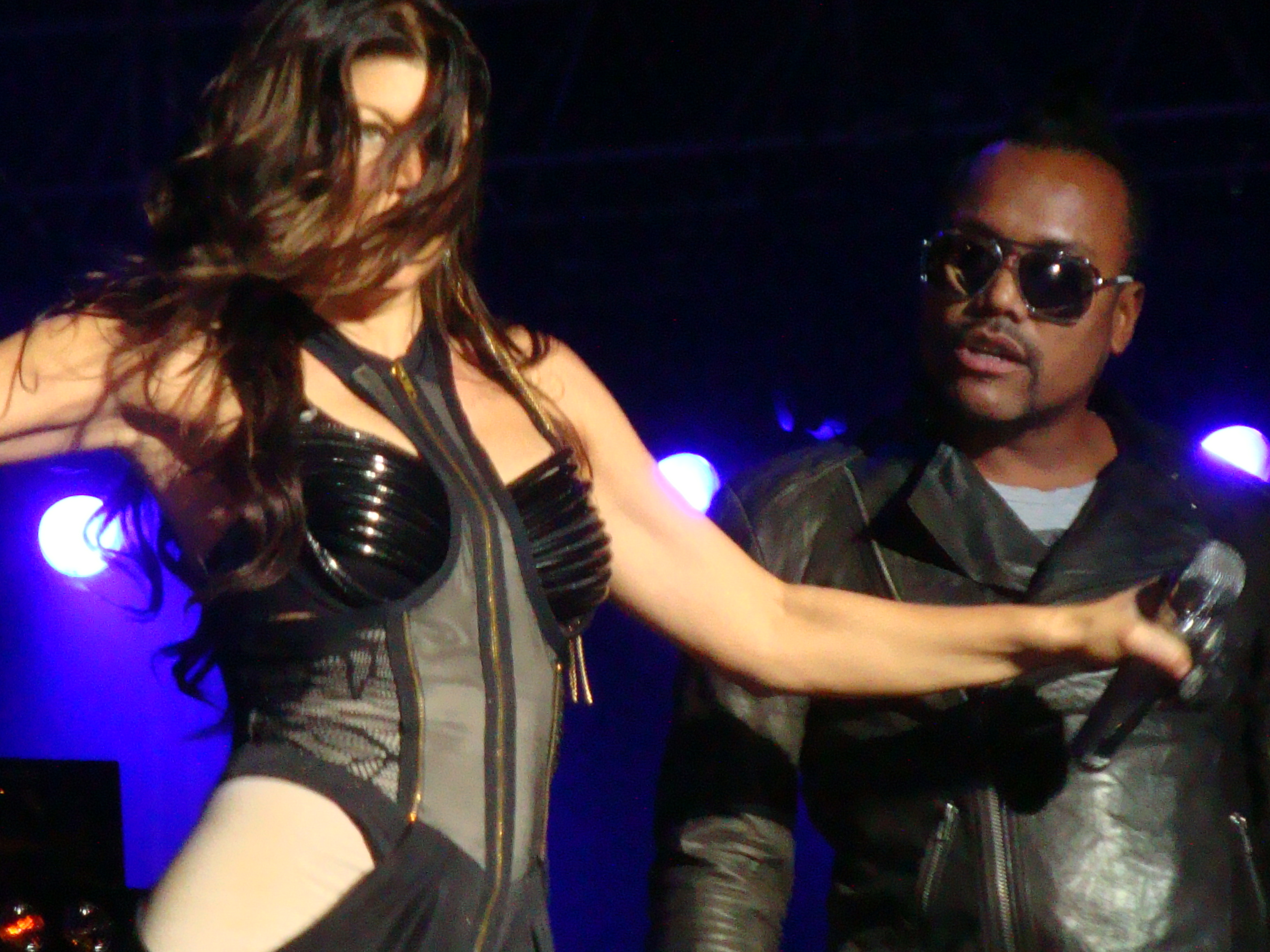 Allan Pineda Lindo & Stacy Ann Ferguson - in Lisbon - Optimus Alive09